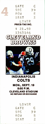 A ticket for a September 19, 1988 NFL game featuring the Indianapolis Colts versus the Cleveland Browns at Cleveland Stadium.